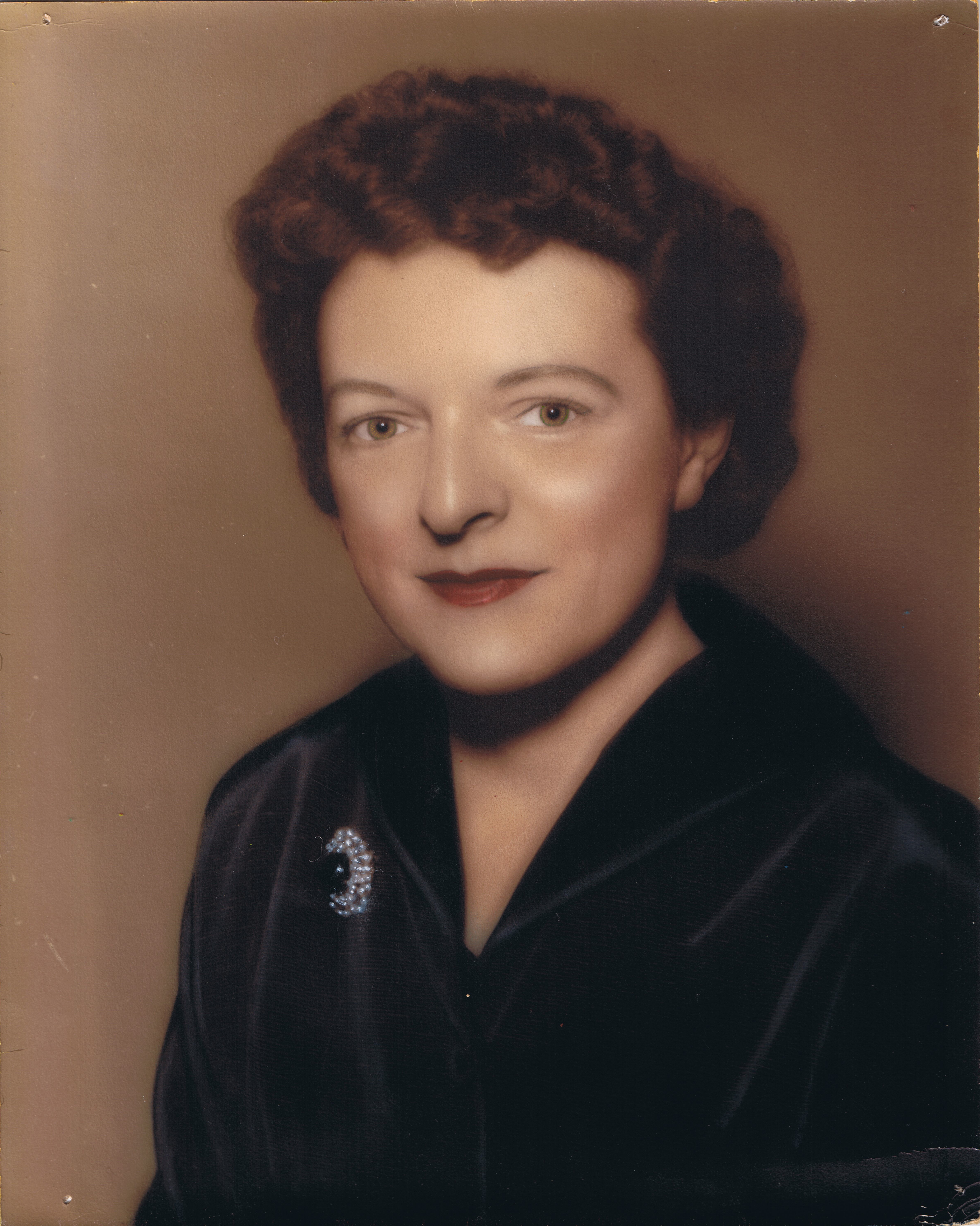 Flower in December of 1952